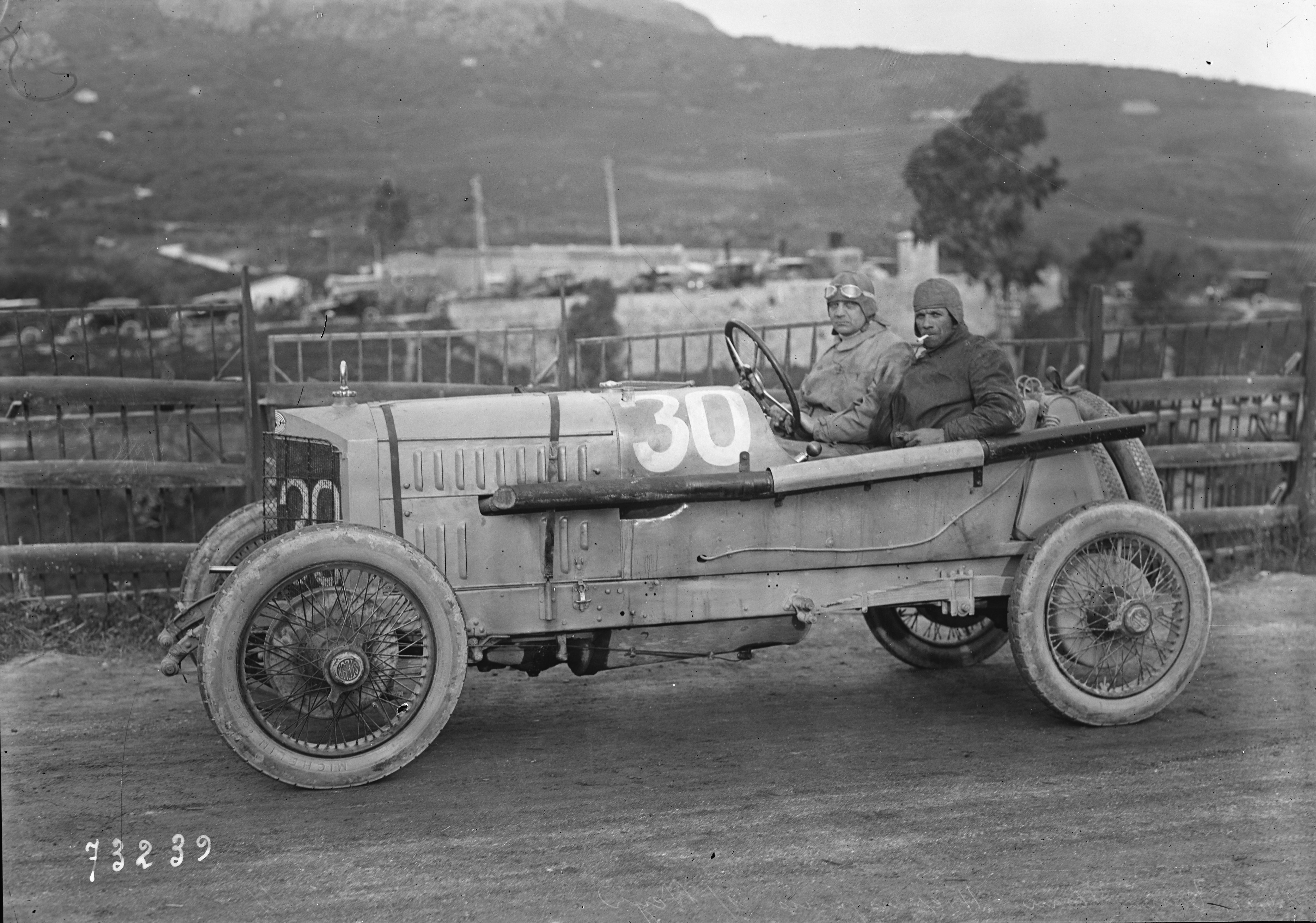 Otto Hieronimus in his Steyr at the 1922 Targa Florio.